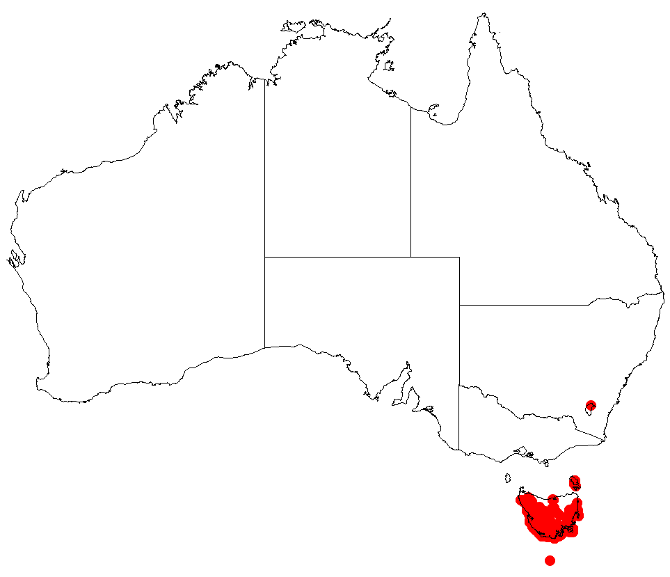 Hakea epiglottis Occurrence data downloaded from Australasian Virtual Herbarium on 22 November 2018 using